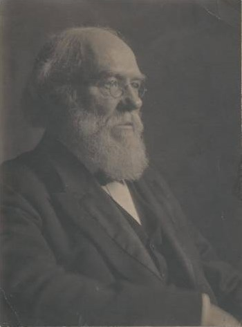 Portrait of Lemuel Everett Wilmarth dated 1912.